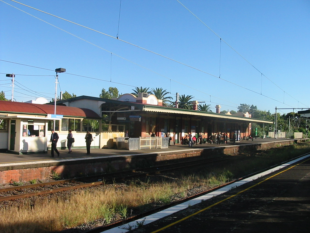 →Essendon railway station, Melbourne - the island platform taken from platform 1.